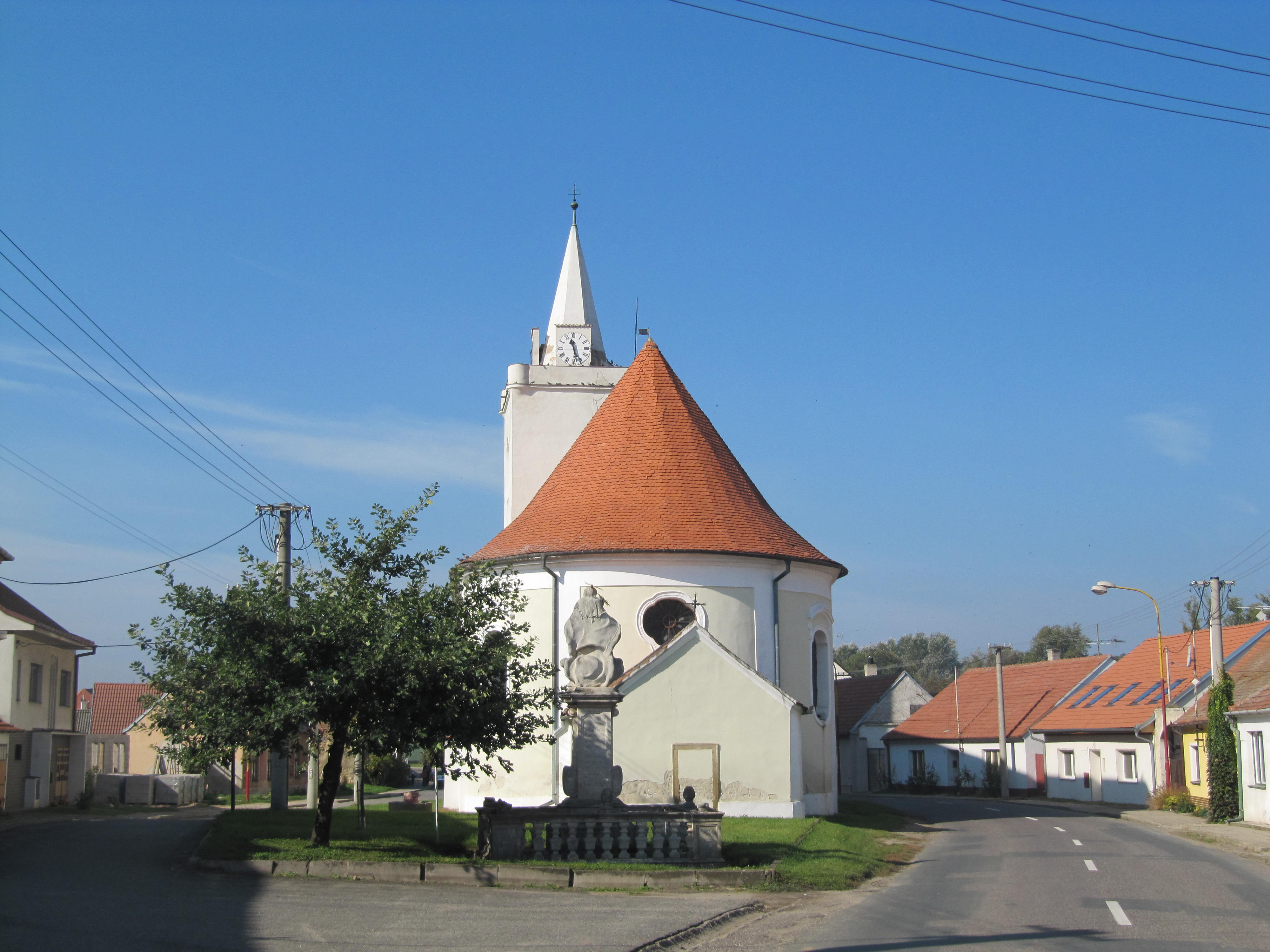 Dolní Věstonice in Břeclav District, Czech Republic.St.-Michael-church.